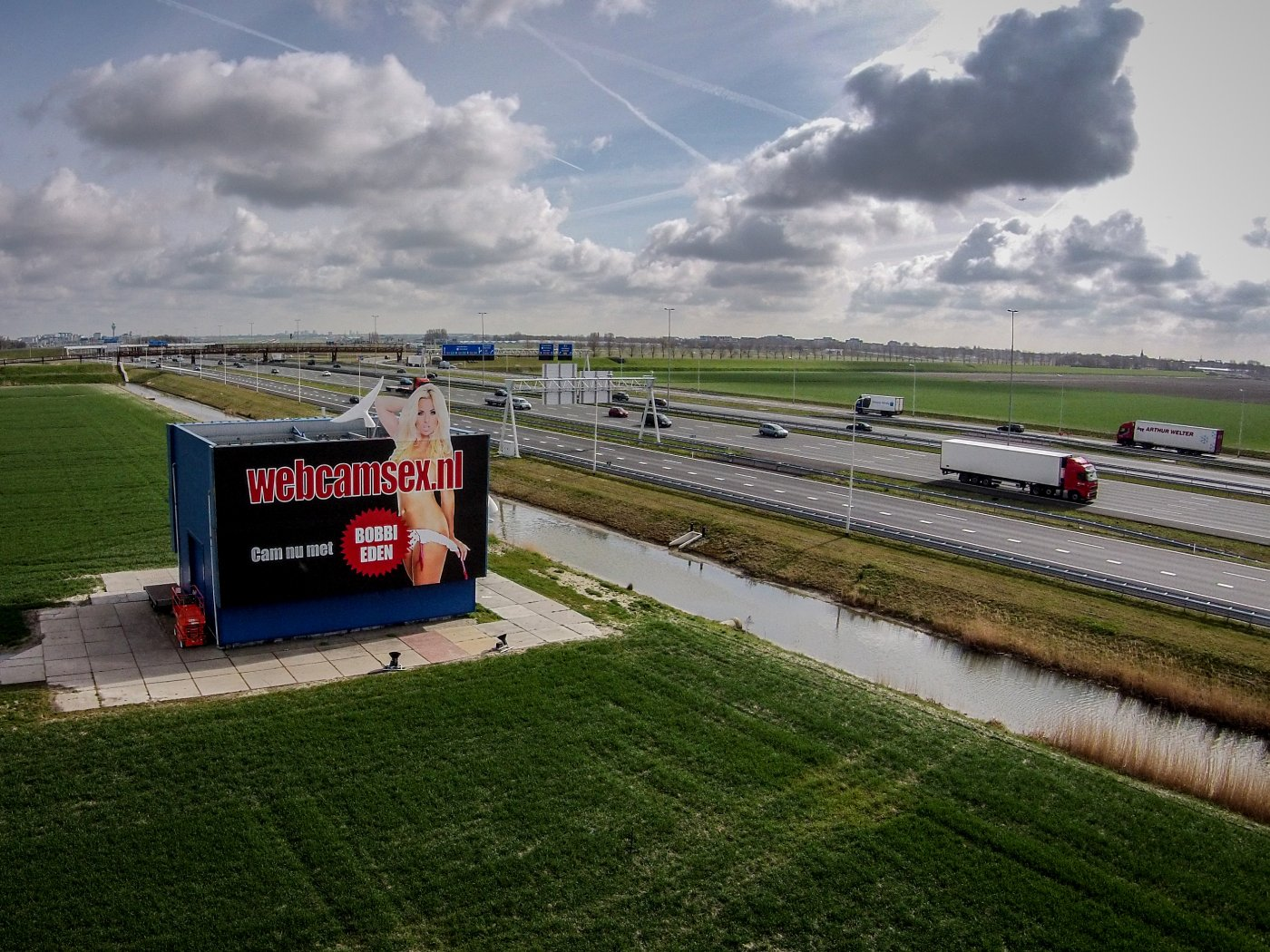 Billboard for Webcamsex.nl with Bobbi Eden